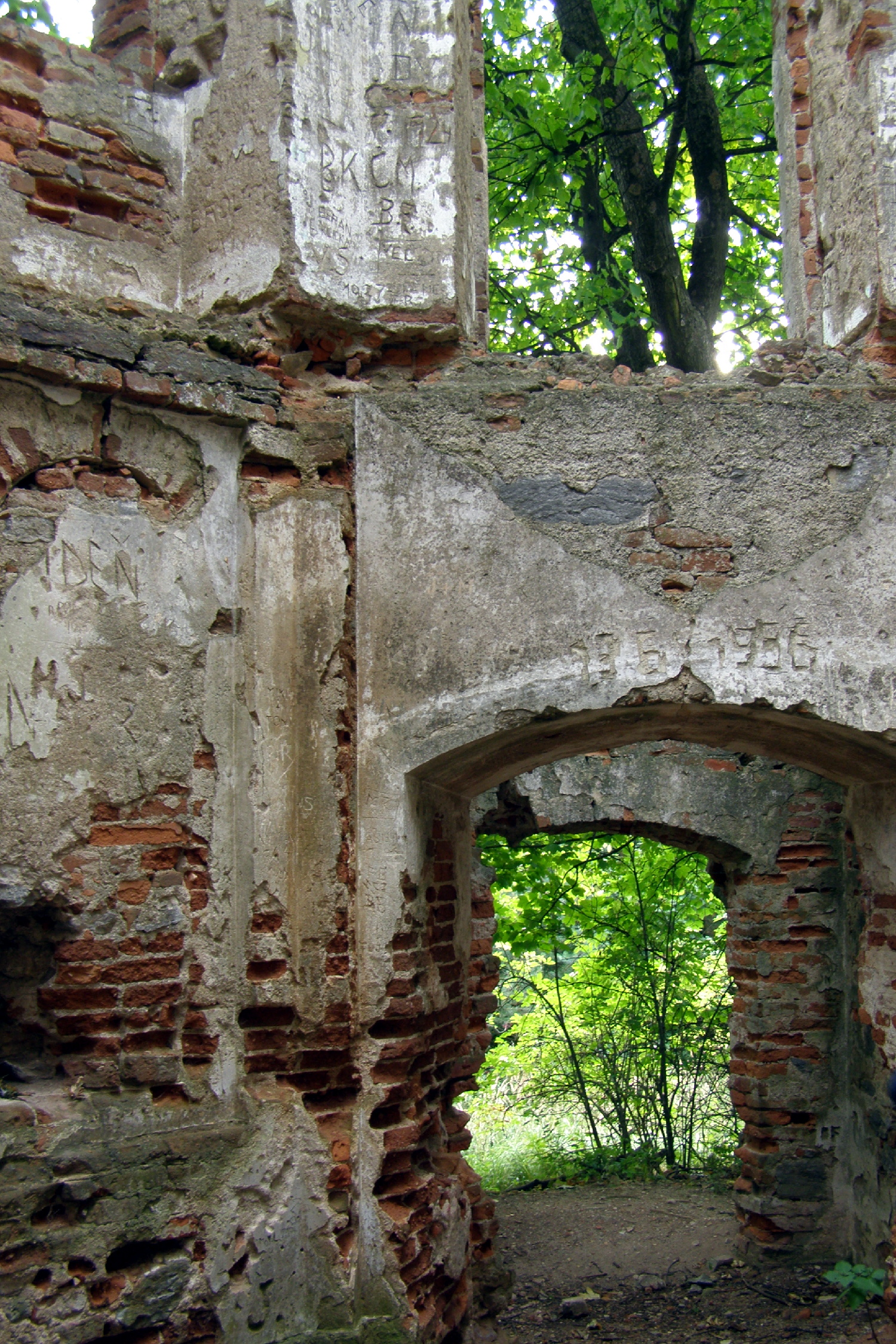 Lukov village. Saint Vitus hill. Ruins of a villa (Lustschloss, maison de plaisance)